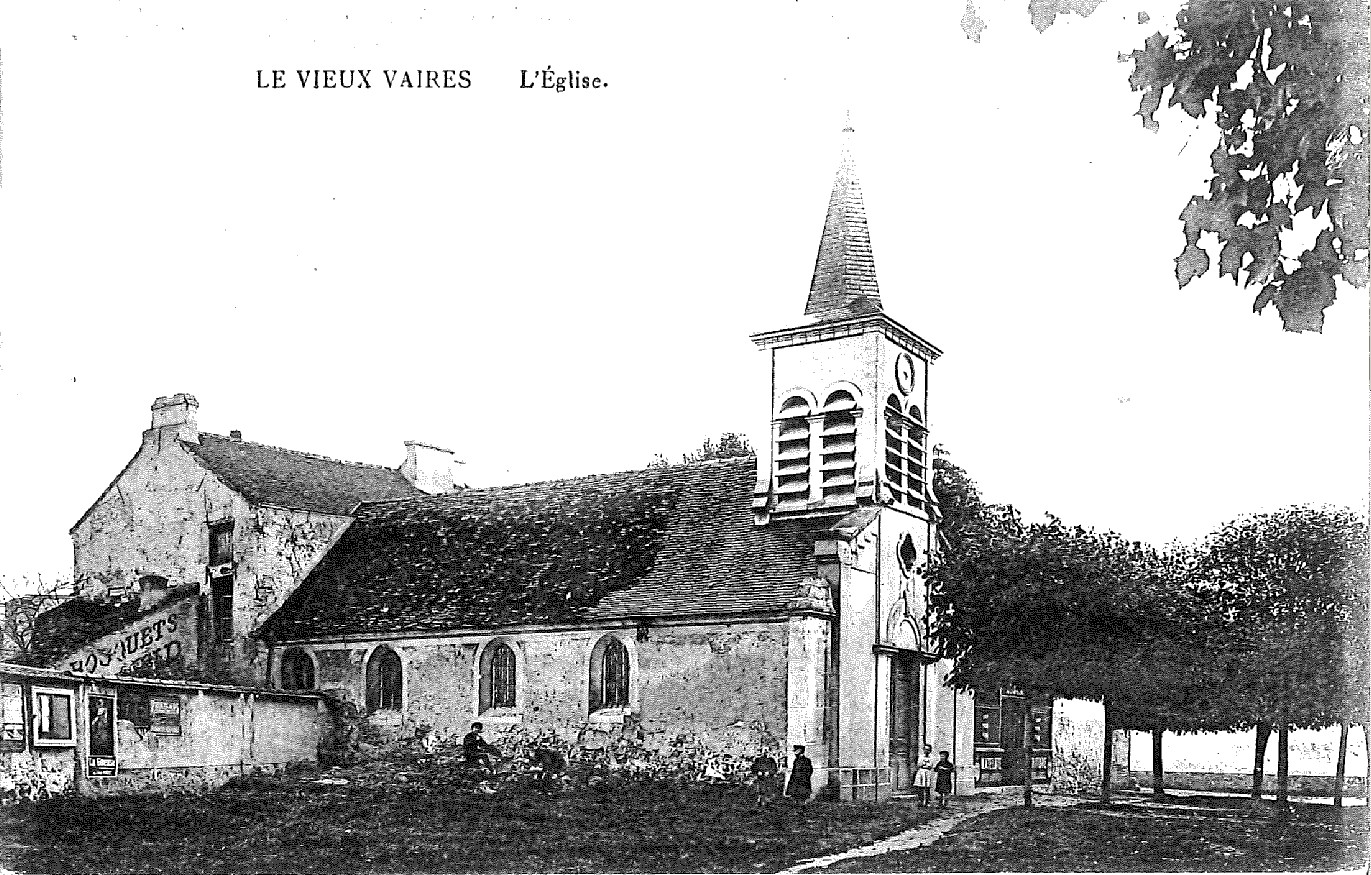 The former church Sainte-Agathe of Vaires-sur-Marne (Seine-et-Marne, France) in the 1910s on an old postcard. Since, it has been destroyed in 1935 and replaced by a modern church.